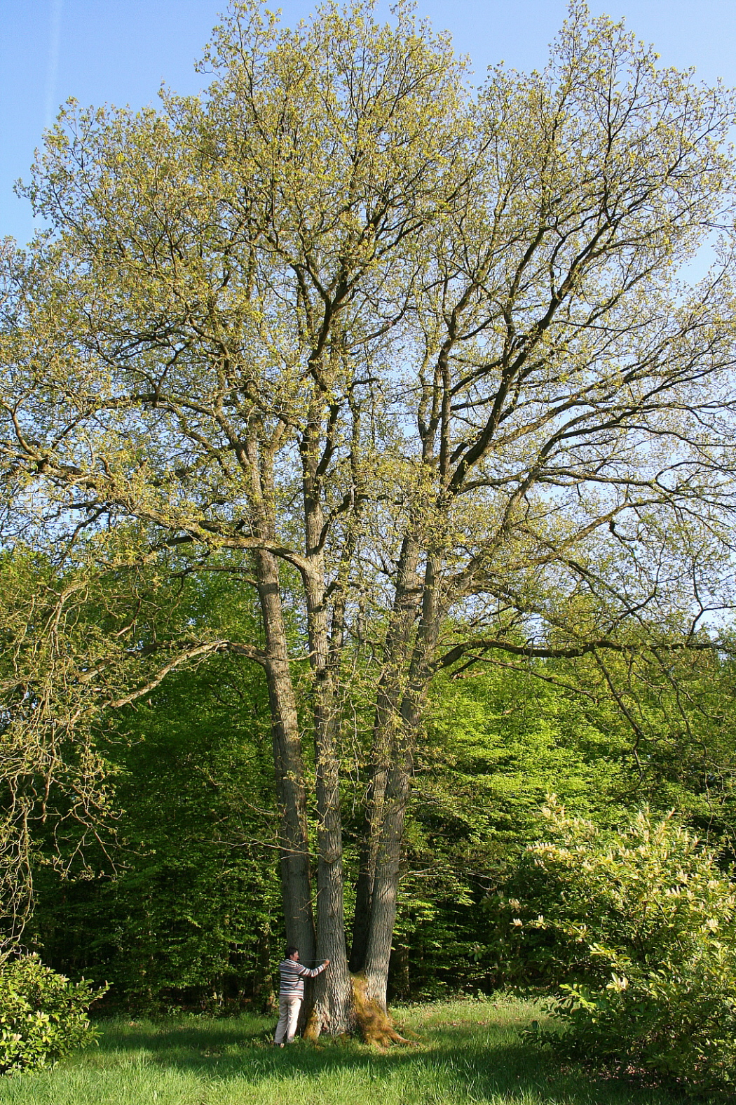 Sessile oak.